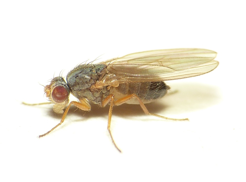 Scaptomyza pallida, location: The Netherlands - Rhenen - Blauwe Kamer - Gelderland